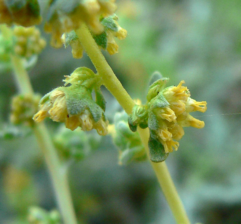 Ambrosia dumosa at the Springs Preserve garden, Las Vegas, Nevada